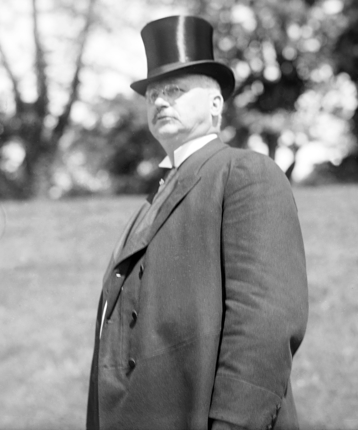 Rollin S. Woodruff, Governor of Connecticut